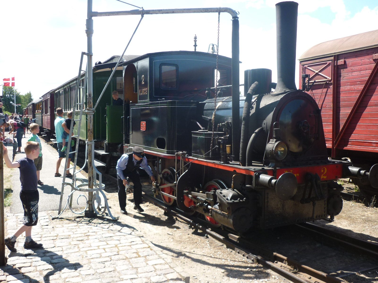 Heritage train Maribo-Bandholm: Steam locomotive KJØGE refilling water at Bandholm station